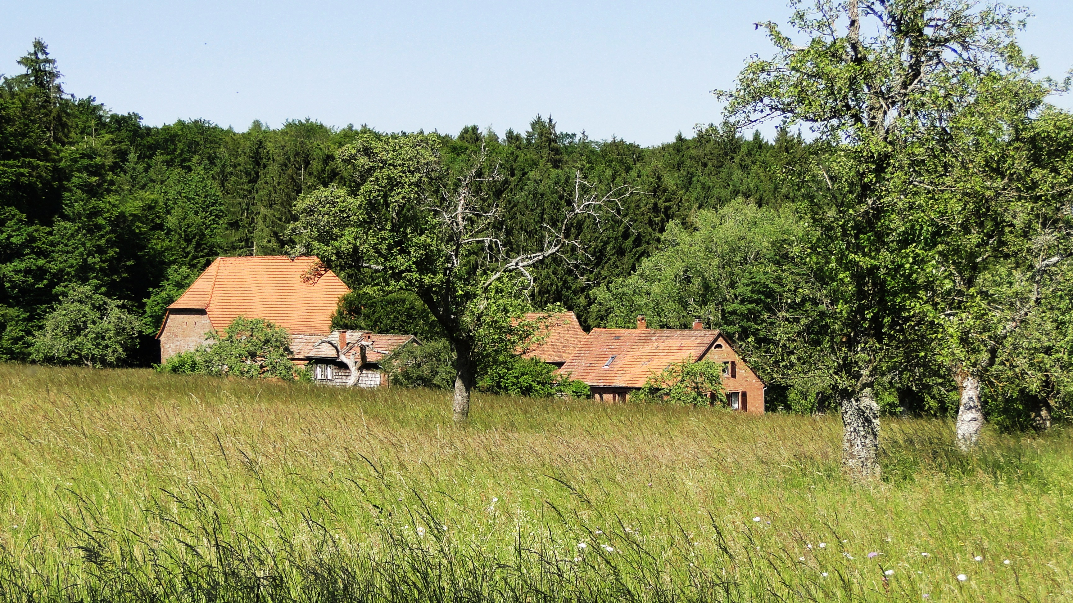 Margarethenhof farm near Neustadt am Main, Germany. Originally built in the 12th century. Long-time property of Kloster Neustadt.